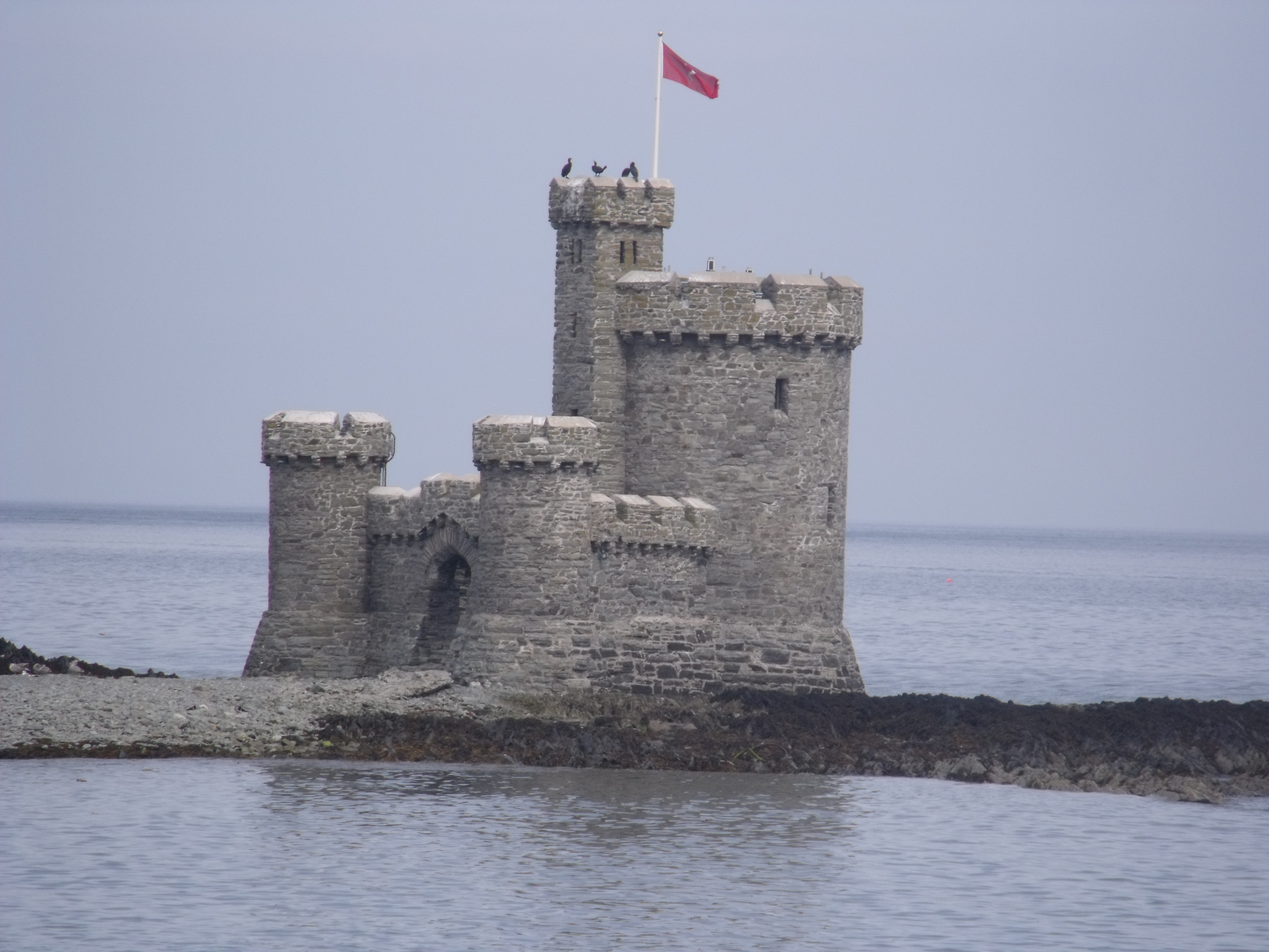 Tower of Refuge (Douglas, IOM)